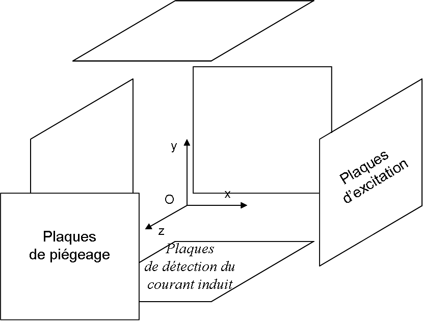 Ion Cyclotron Resonance cubic cell